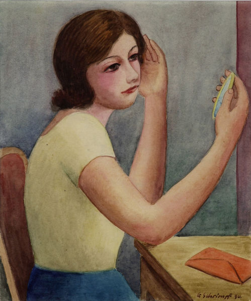 Portrait